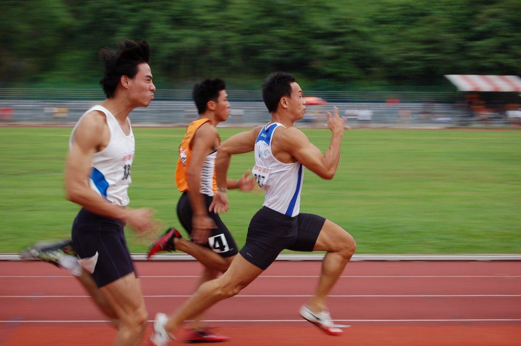 Poh Seng Song wins the 100m at the Singapore IVP 2006 Meet